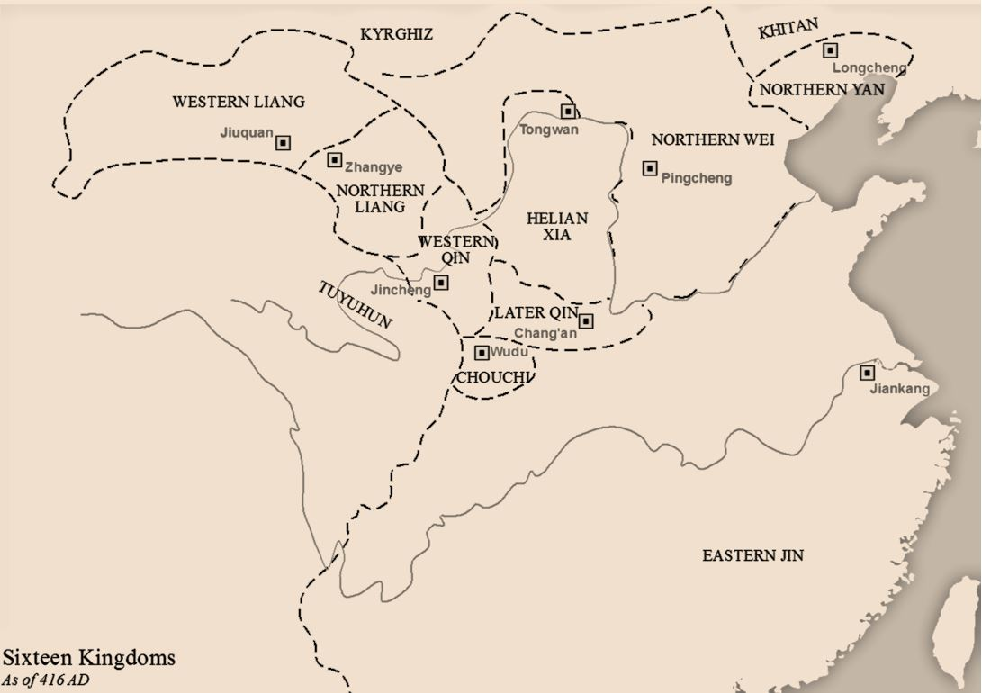 Map of Sixteen Kingdoms as of 416 AD